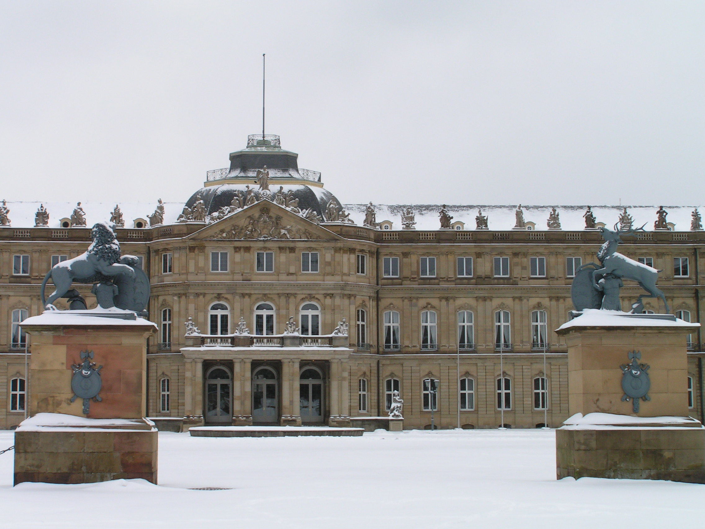 New Castle, Stuttgart